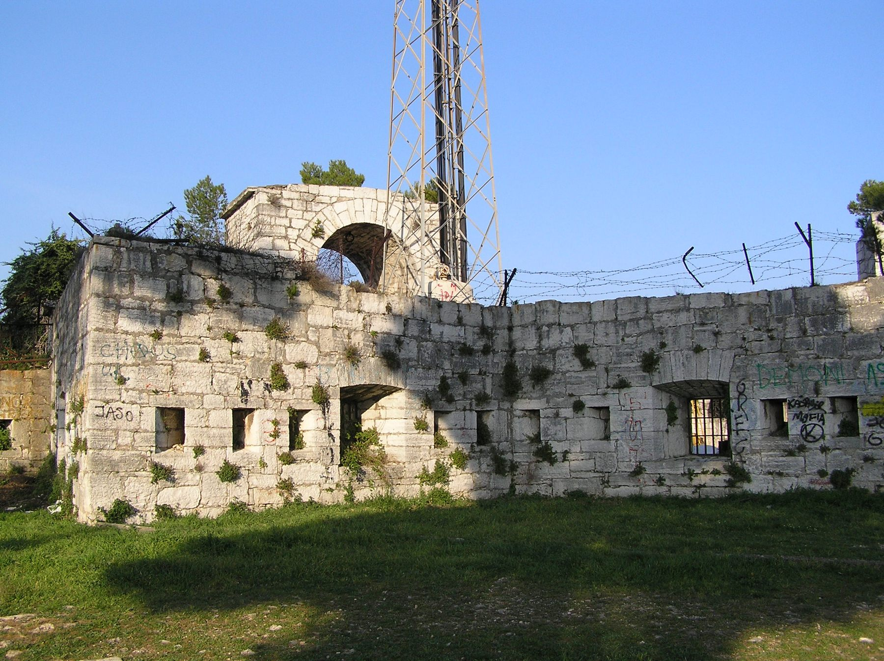 Fort Monvidal in Pula, Croatia self-made